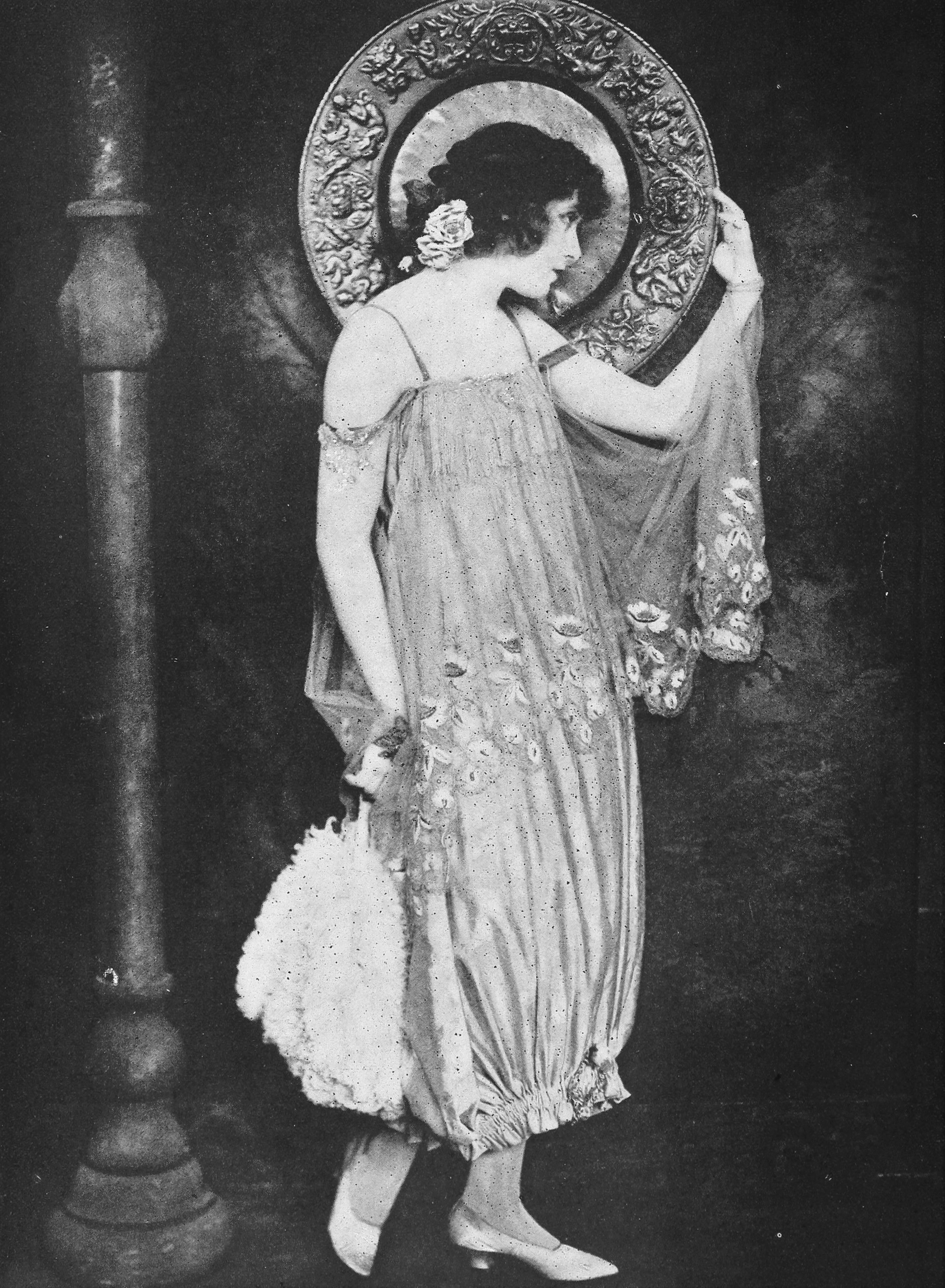 Universal Studios actress Francelia Billington on page 44 of the February 1920 Shadowland.